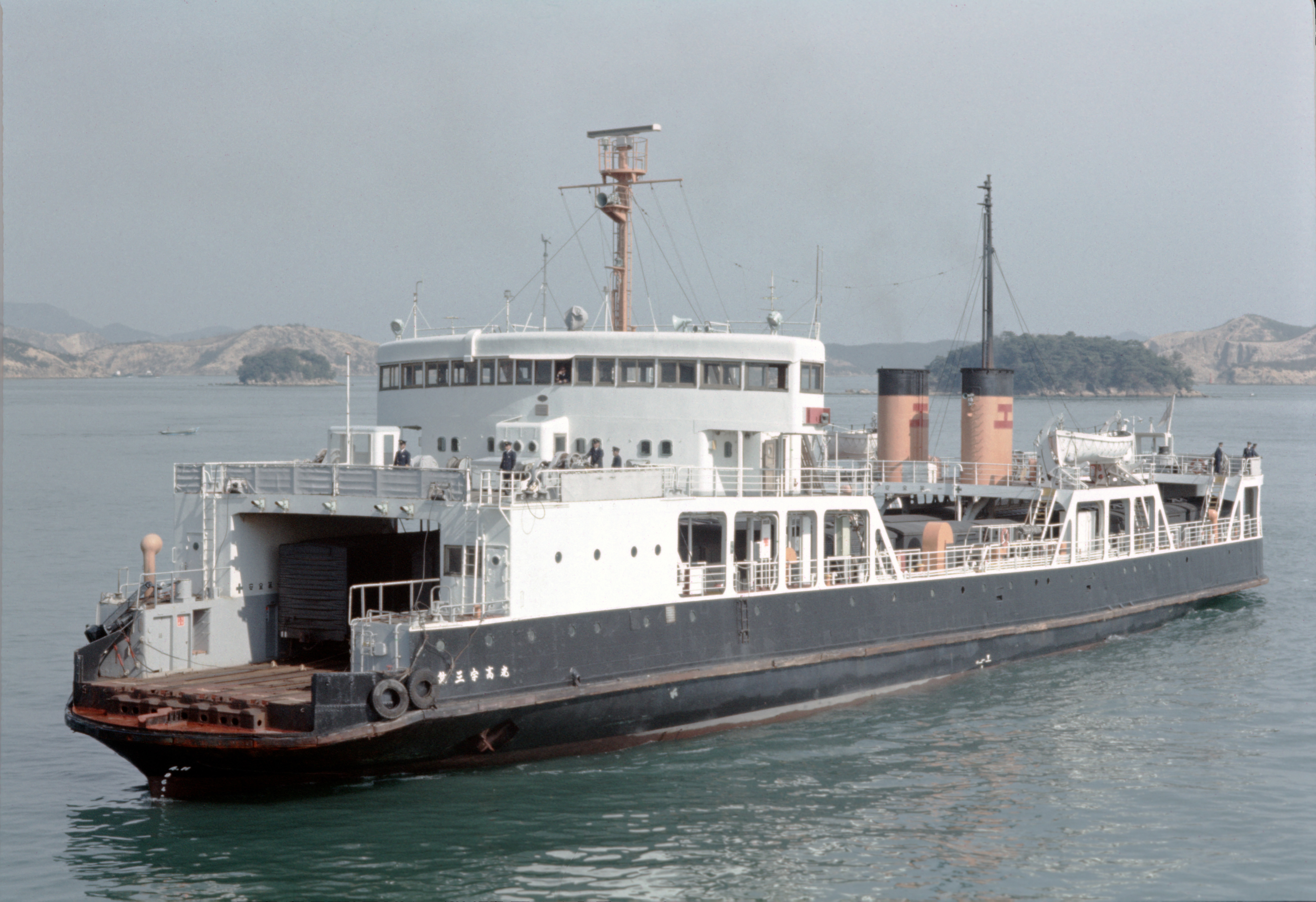 The Japanese National Railways train ferry between Uno and Takamatsu MS No.3 UKO MARU in Uno Port